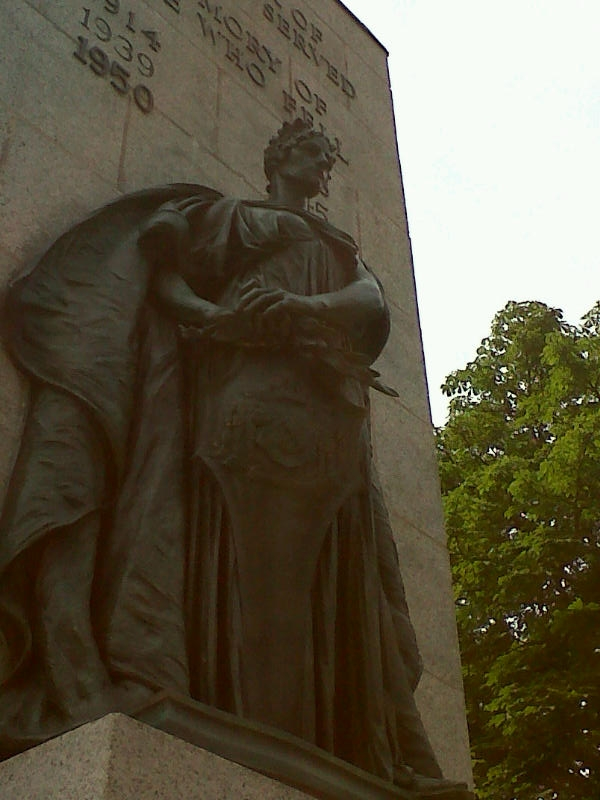 Britannia By Massey Rhind, Grand Parade, Halifax, Nova Scotia